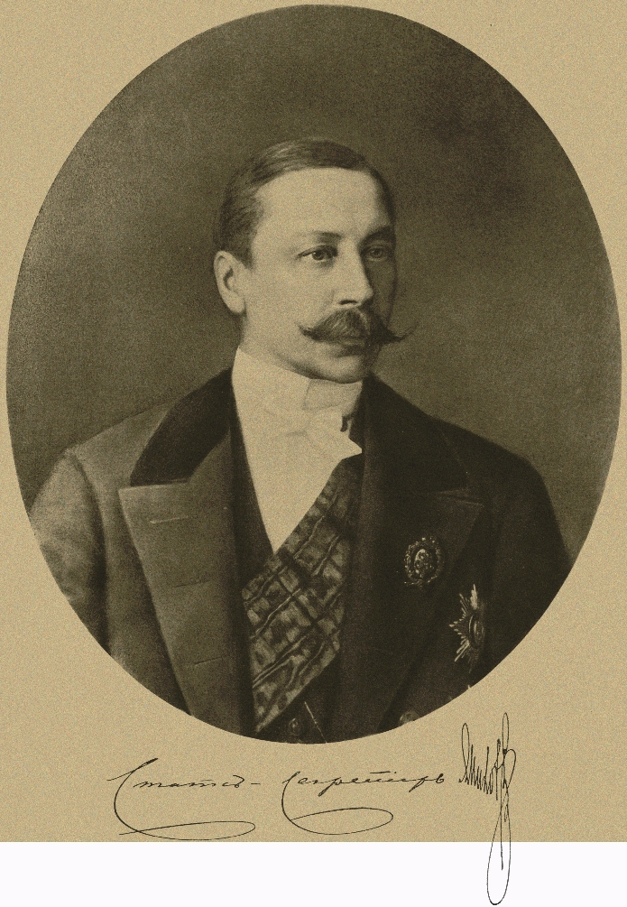 Makov Lev (1830-1883) - Ministr of Russia